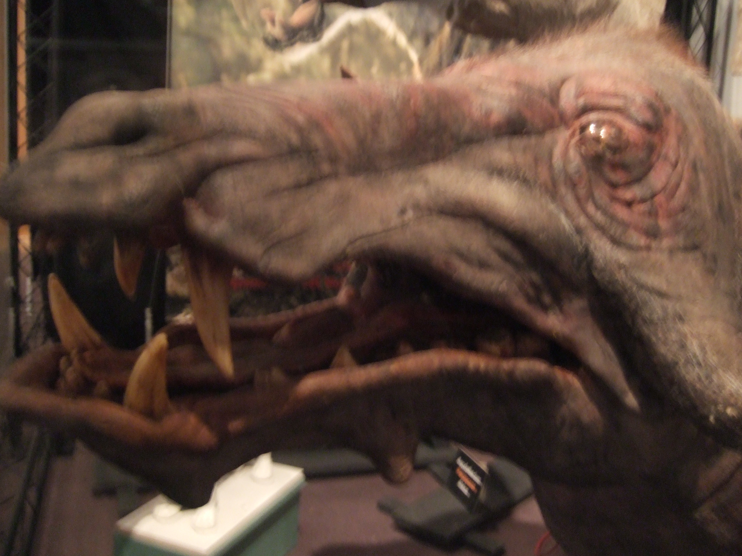 One ugly beast